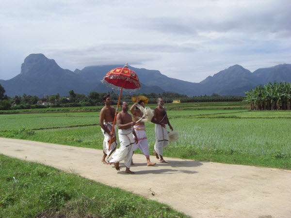 Azhwar Thiruvarasu Background